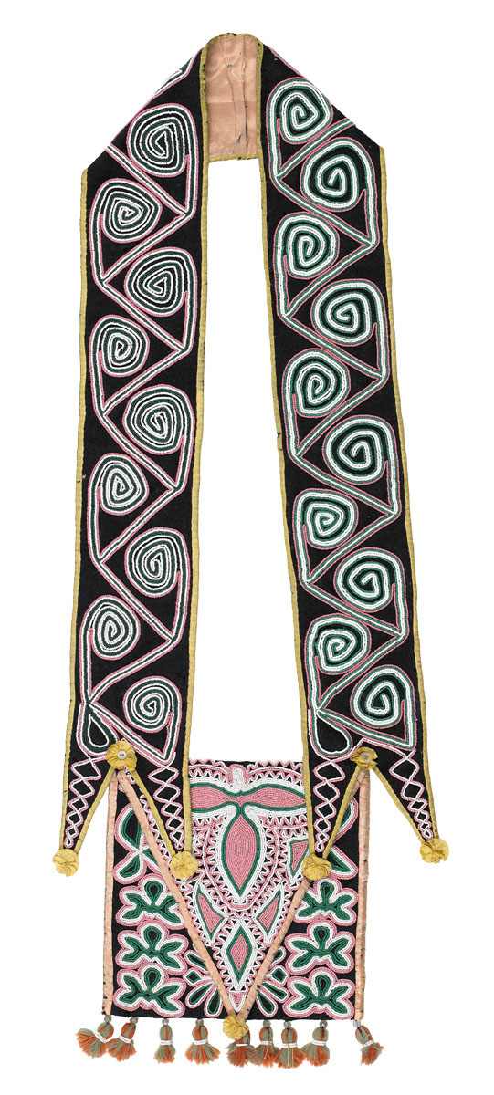 Muscogee Creek bandolier. This Native American beadwork features repeating spirals on the strap and floral motifs.